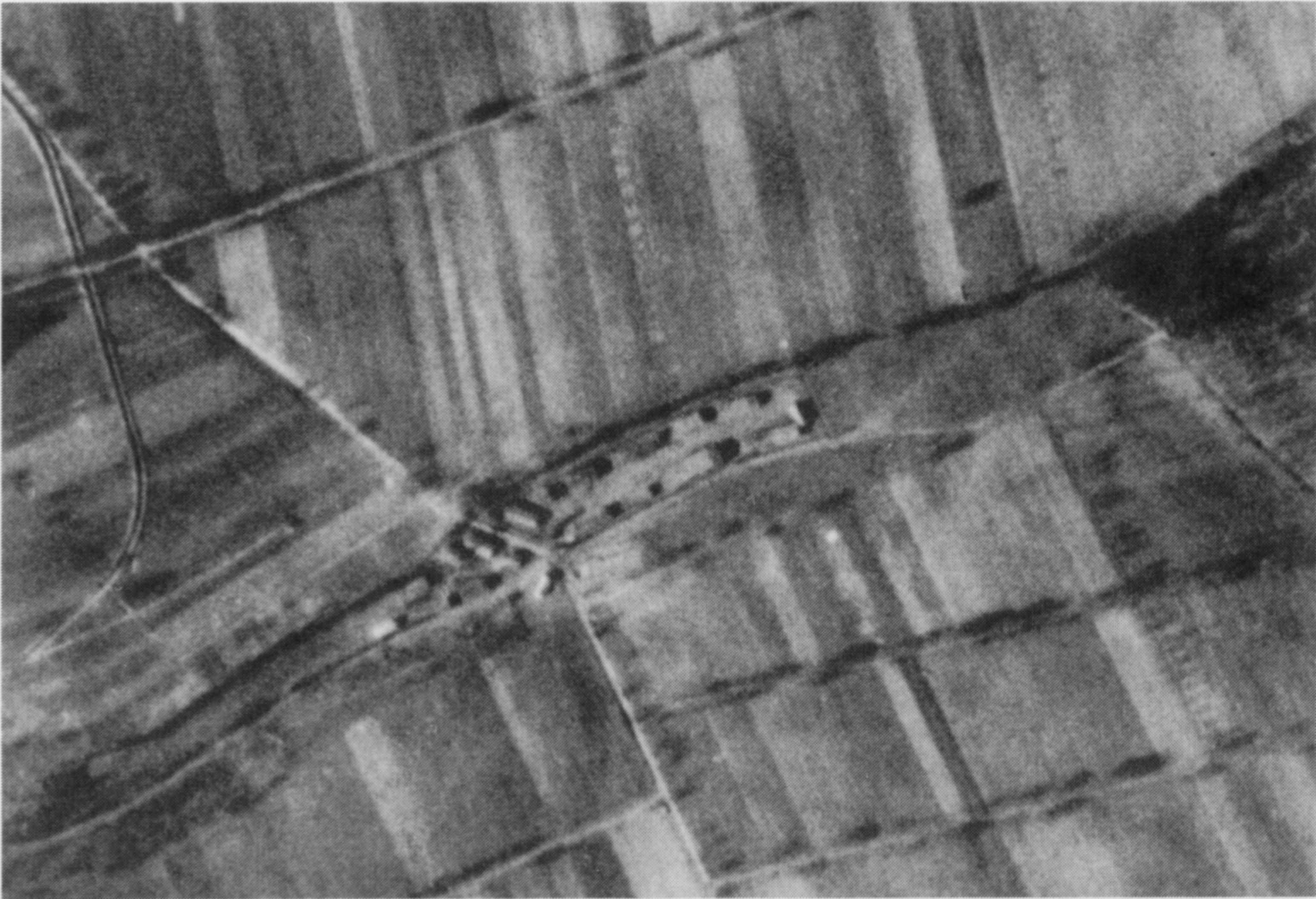 Aerial photo of the KZ Eisbär in Bad Friedrichshall-Kochendorf